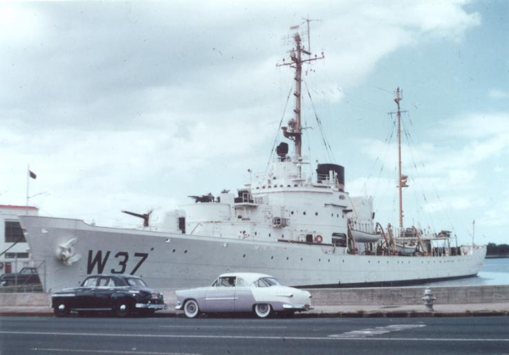 USCG Taney at Honolulu, 1958 by Gilbert Reynaga